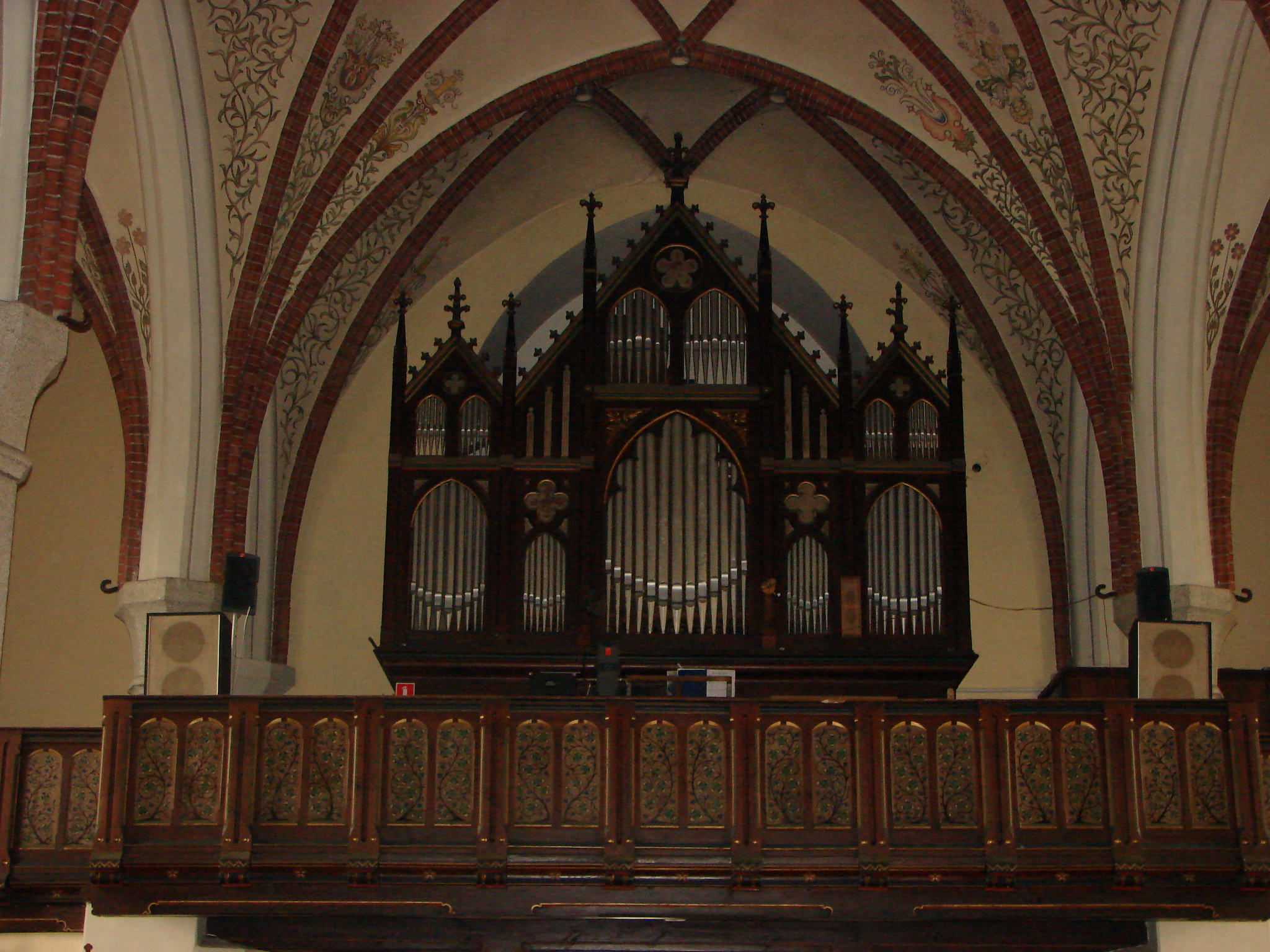 Organs in the Church of Saint Adalbert in Elbląg